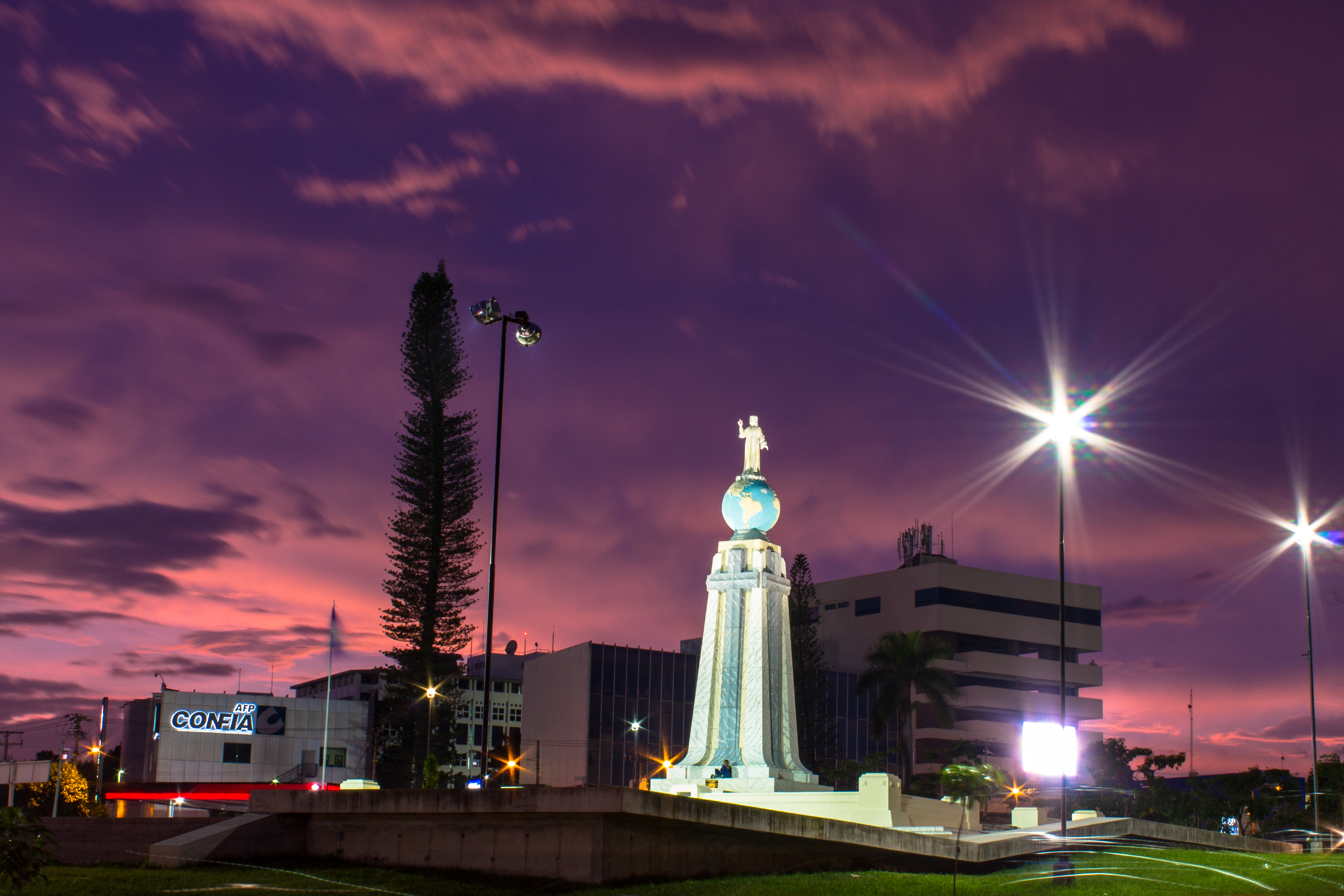 El Salvador del mundo es uno de los monumentos más representativos de El Salvador. Esta Ubicado en San Salvador y muchos lo visitan ya que lo consideran un ícono de San Salvador